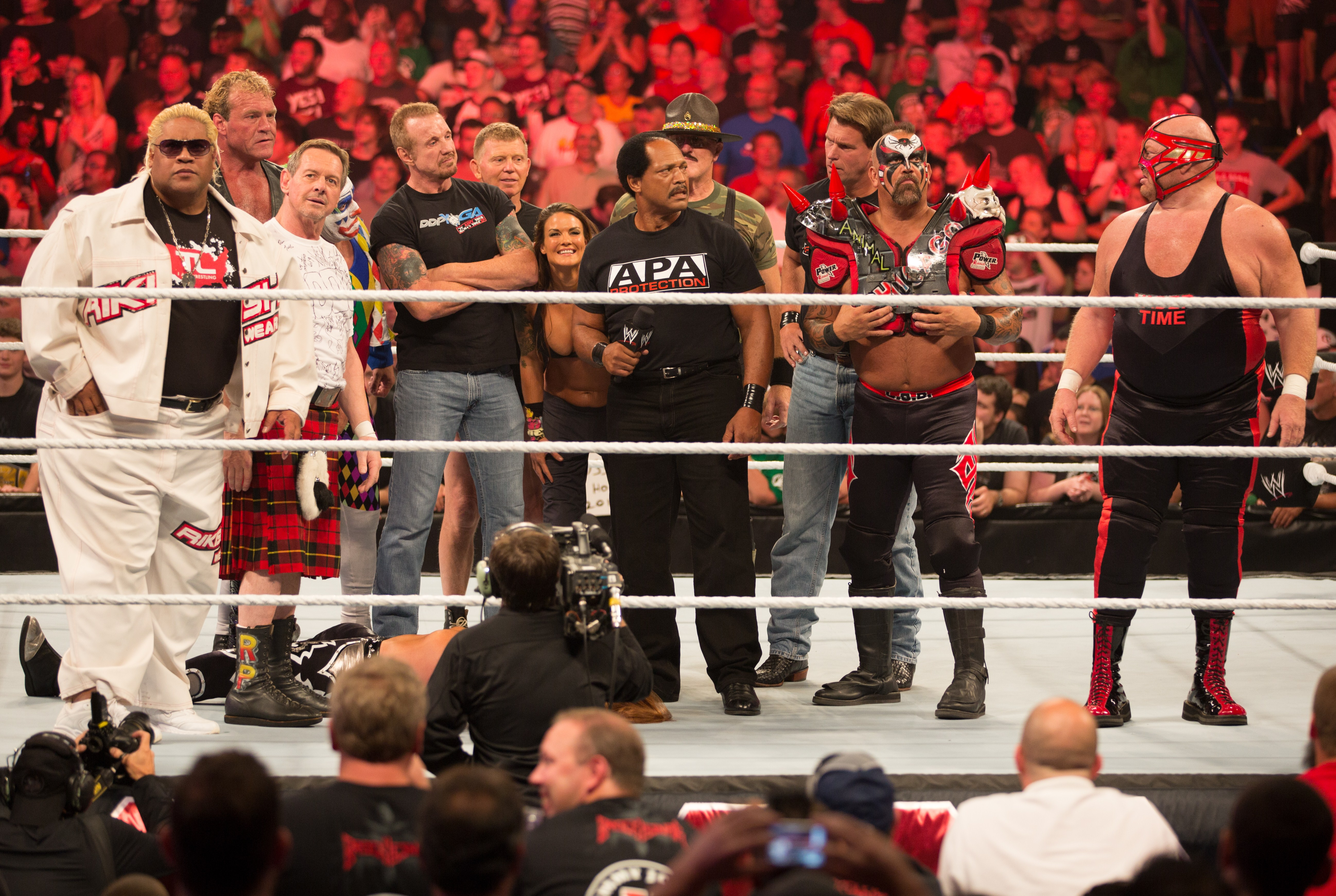 WWE's returning veterans pose after once again vanquishing Heath Slater during Raw 1000. (from left: Rikishi, Sycho Sid, Roddy Piper, Doink the Clown, Diamond Dallas Page, Bob Backlund, Lita, Ron Simmons, Sgt. Slaughter, JBL, Road Warrior Animal and Vader)